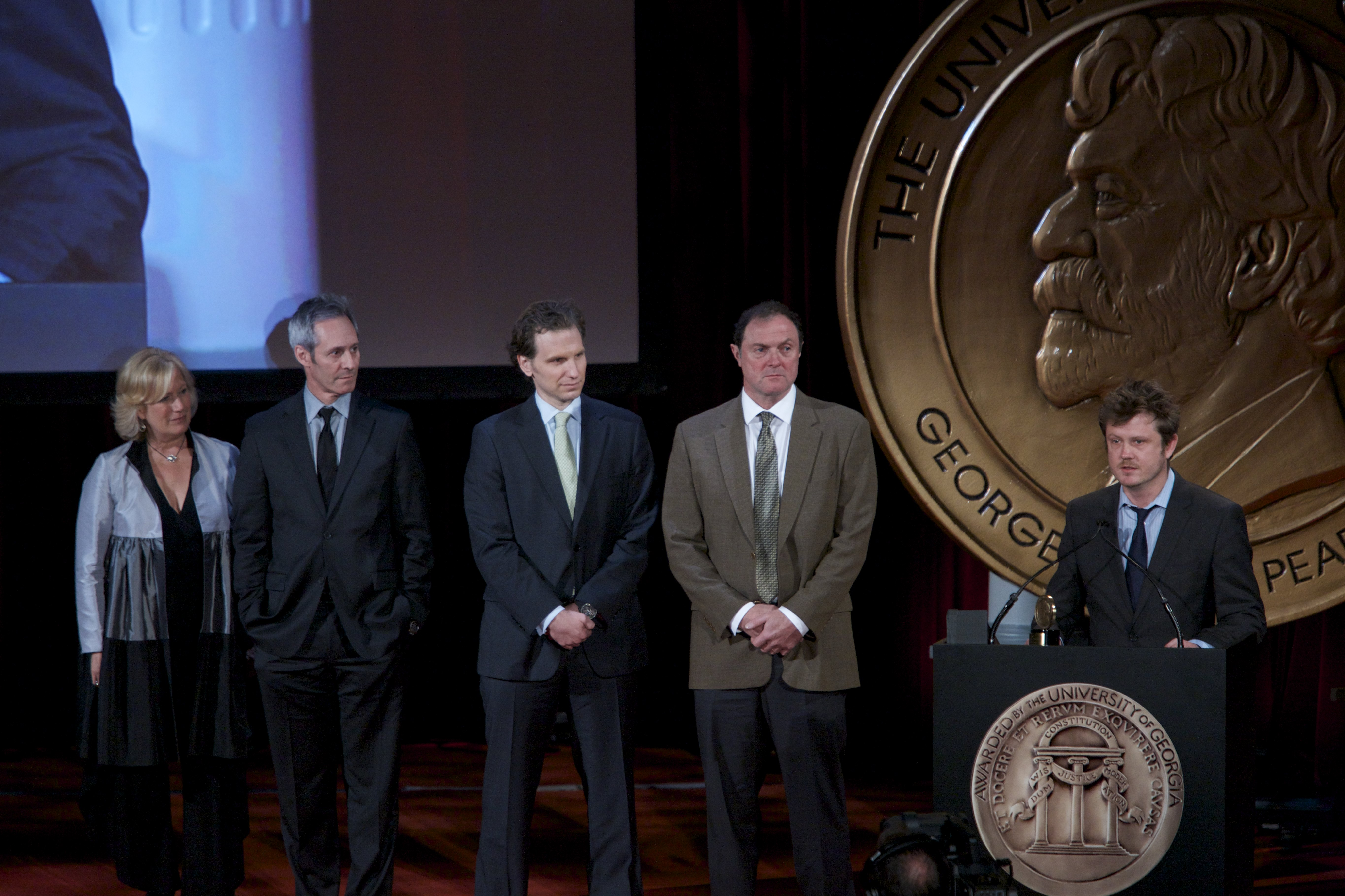 Showrunner Beau Willimon accepts the Peabody Award for House of Cards. He is on stage with Boris McGiver, Jayne Atkinson, Sebastian Arcelus and. Michael Gill